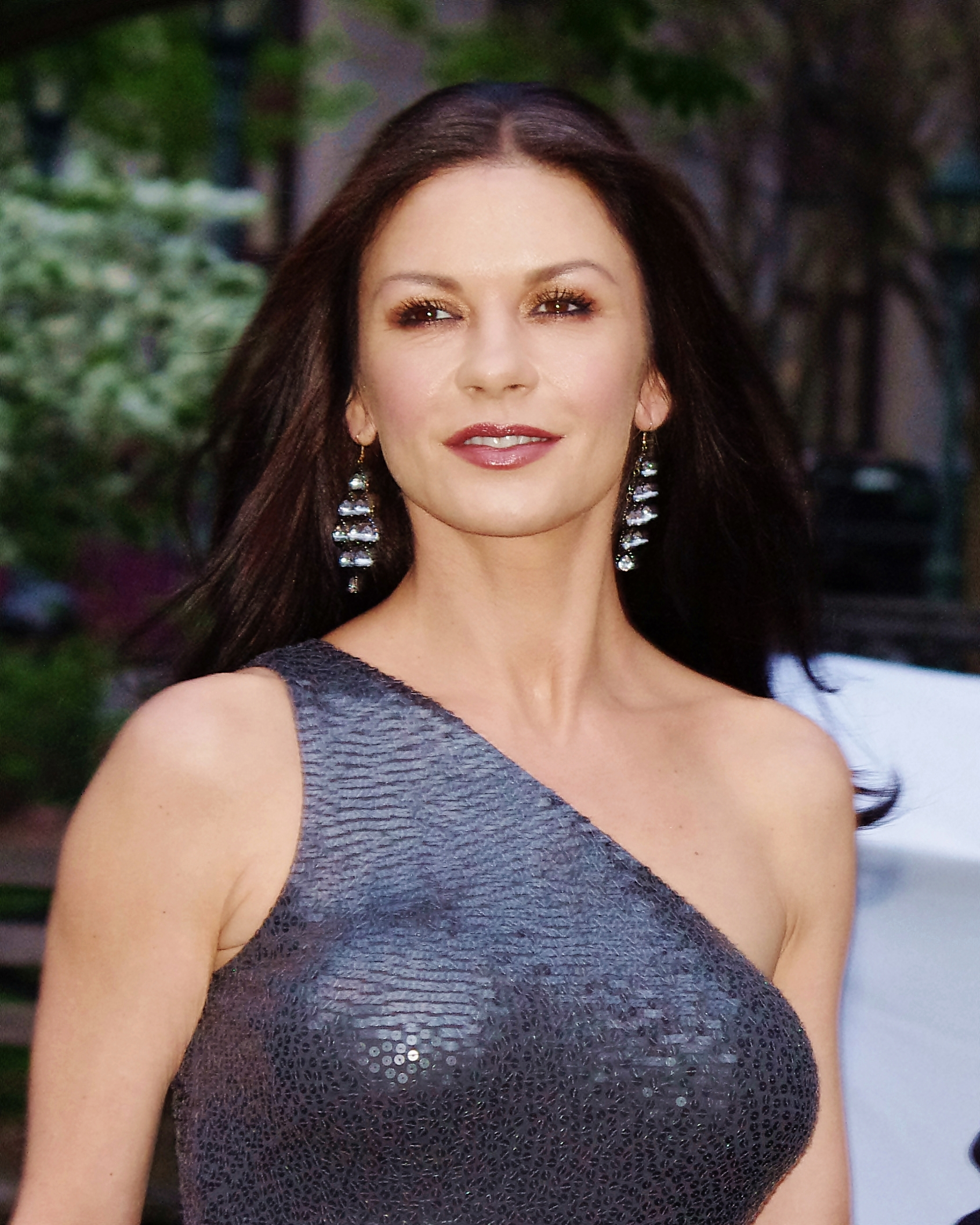 Catherine Zeta-Jones at the Vanity Fair party for the 2012 Tribeca Film Festival.